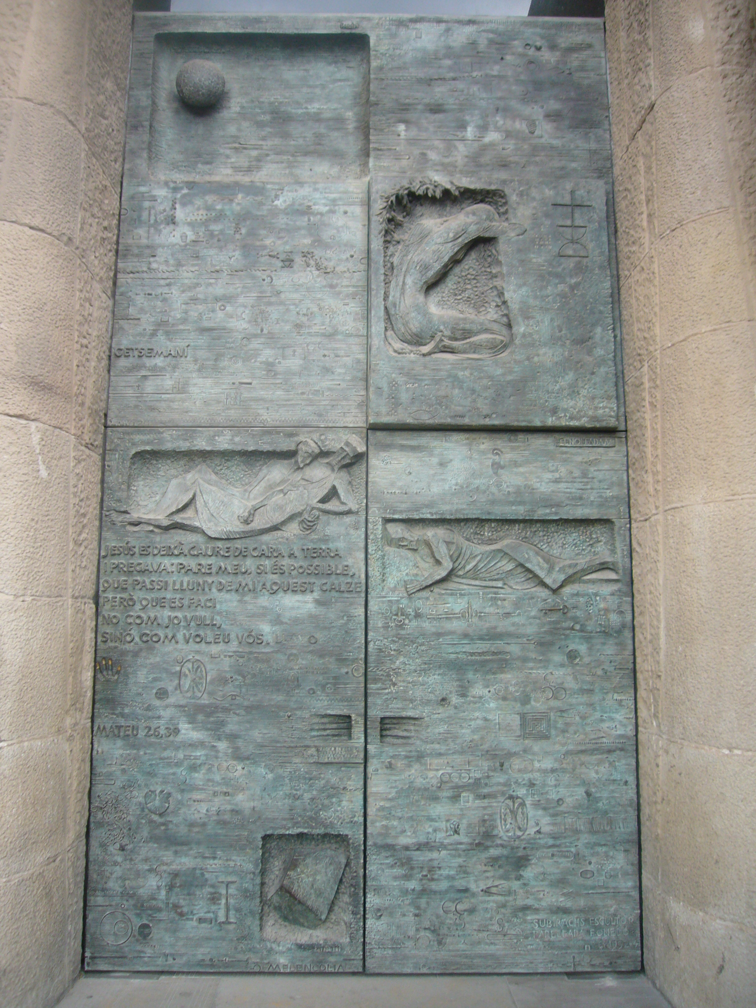 Gethsemane Door at the Passion Facade of the Sagrada Família